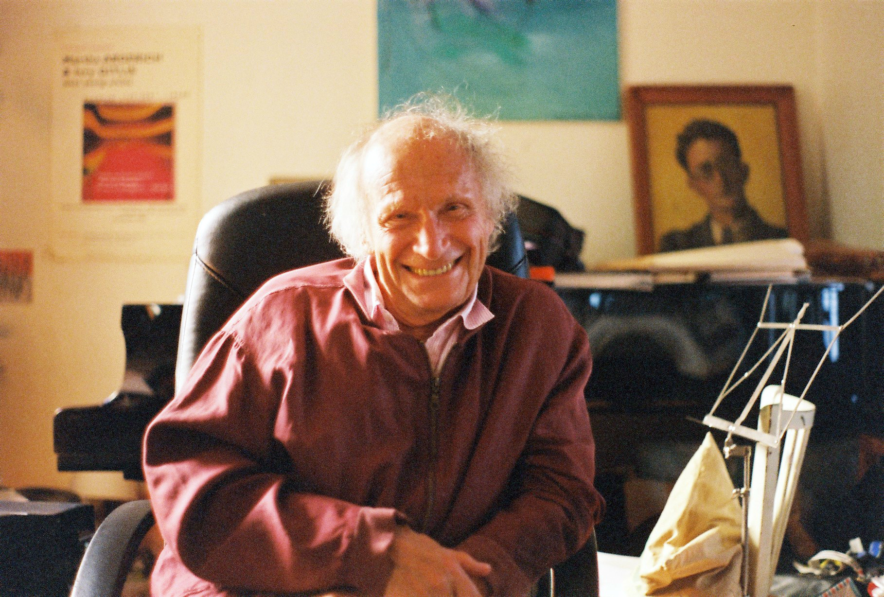 Ivry Gitliis in his home. Photographer: Tamar Moshinsky